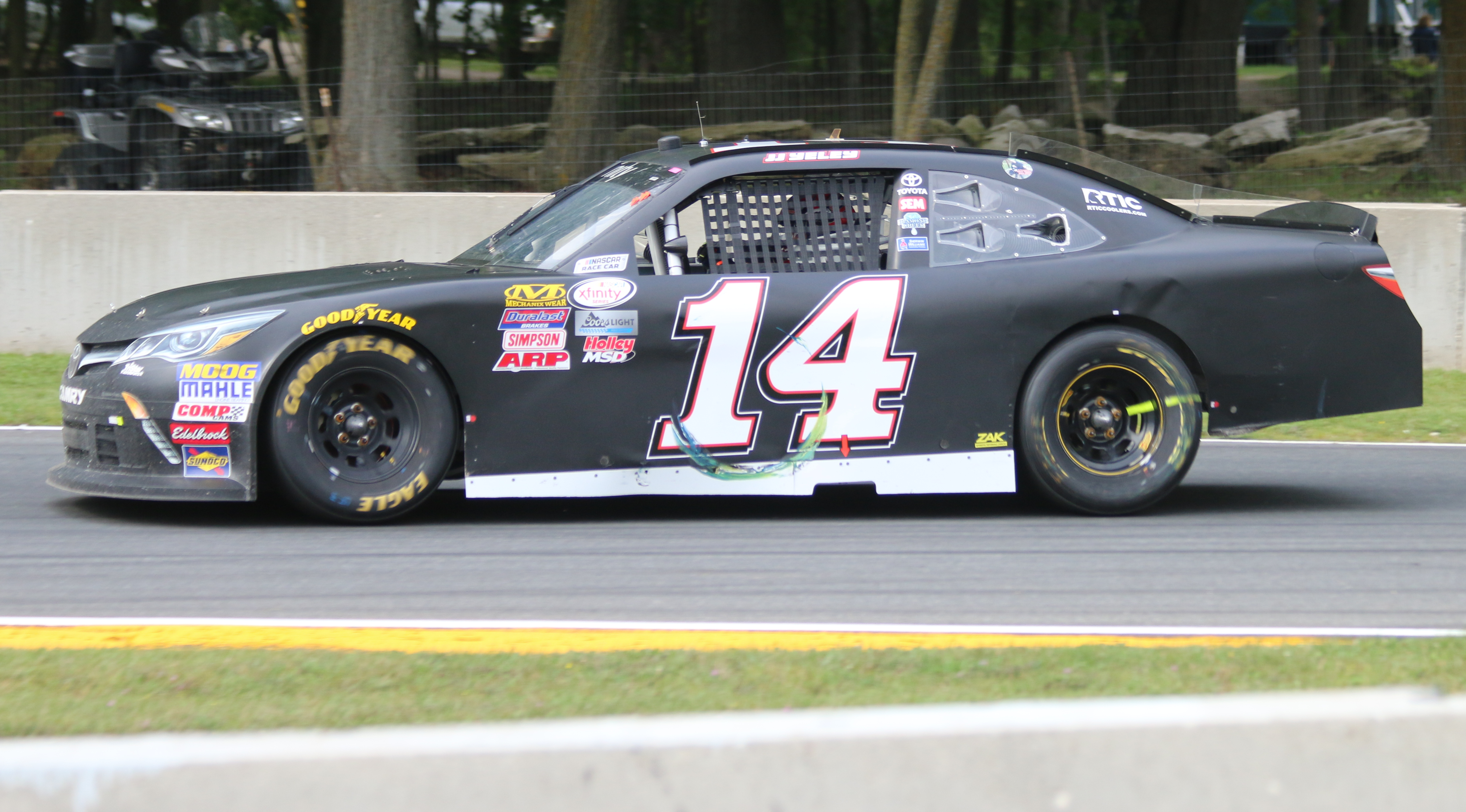 The Toyota Camry of JJ Yeley at the NASCAR Xfinity Series Johnsonville 180.